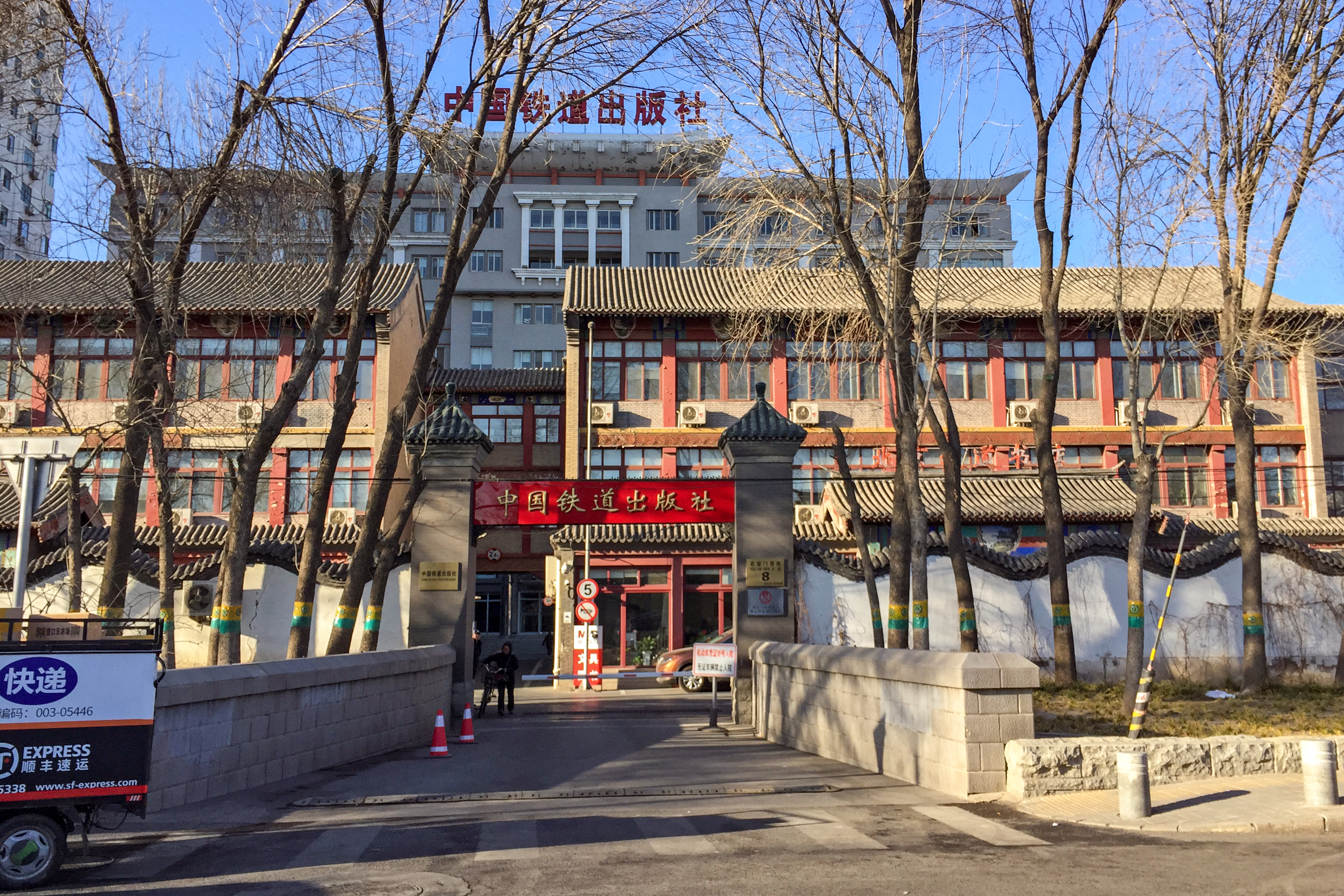 The name became "China Railway Publishing House Co., Ltd." on 29 December 2018.